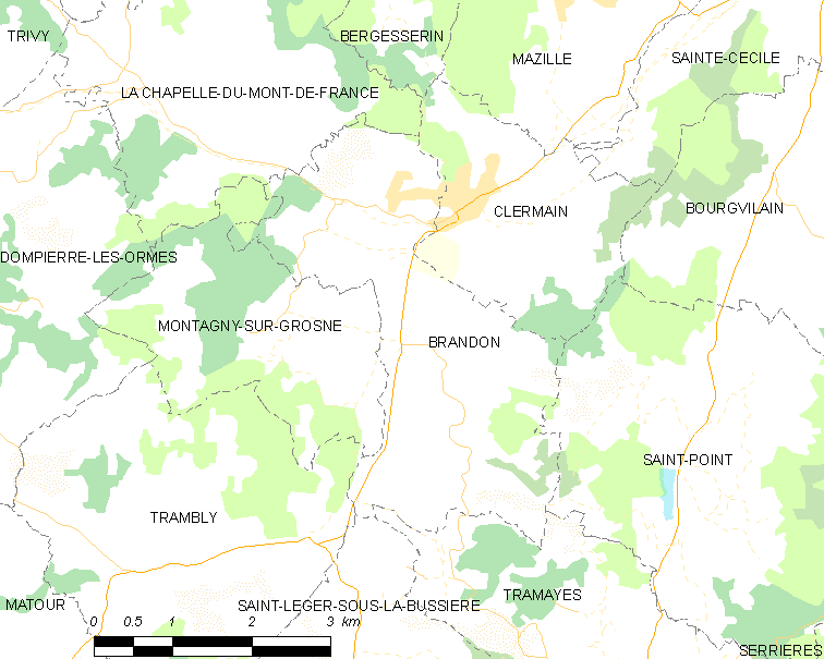 Map of French municipality